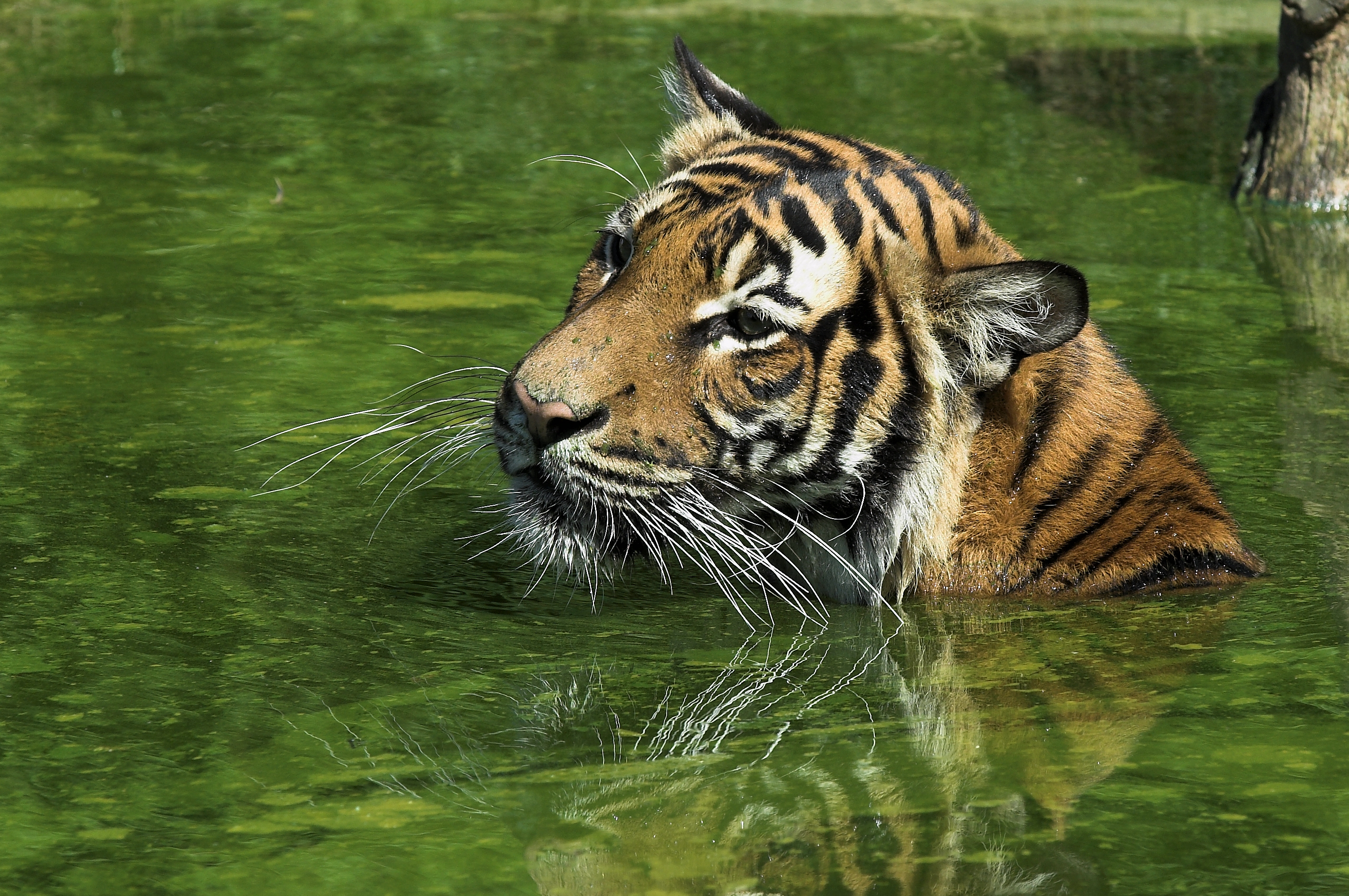 Swimming Malayan Tiger in Dortmund zoological garden